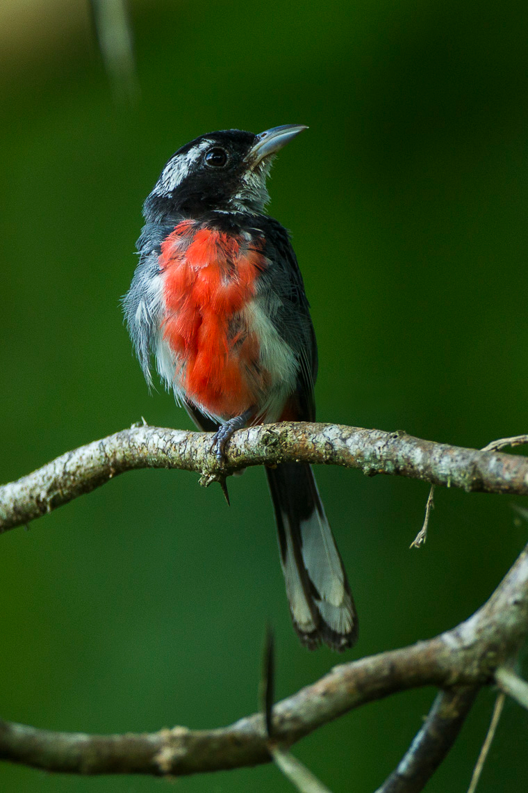 Red-breasted Chat - Oaxaca - Mexico_S4E8587